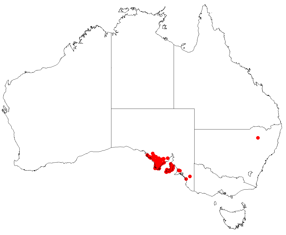 Billardiera sericophora occurrence data from Australasian Virtual Herbarium downloaded 5 July 2018